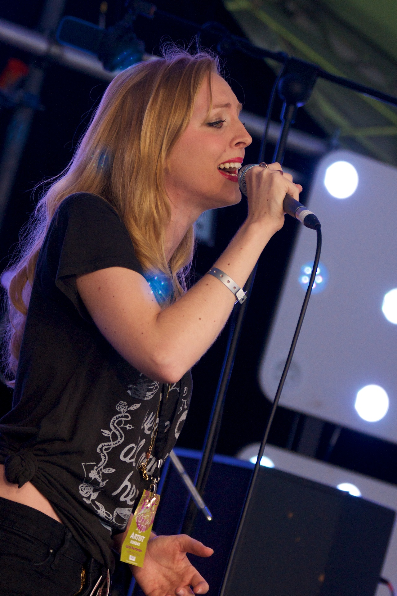 Lizzy Pattinson performing at Rhythms of the World 2011